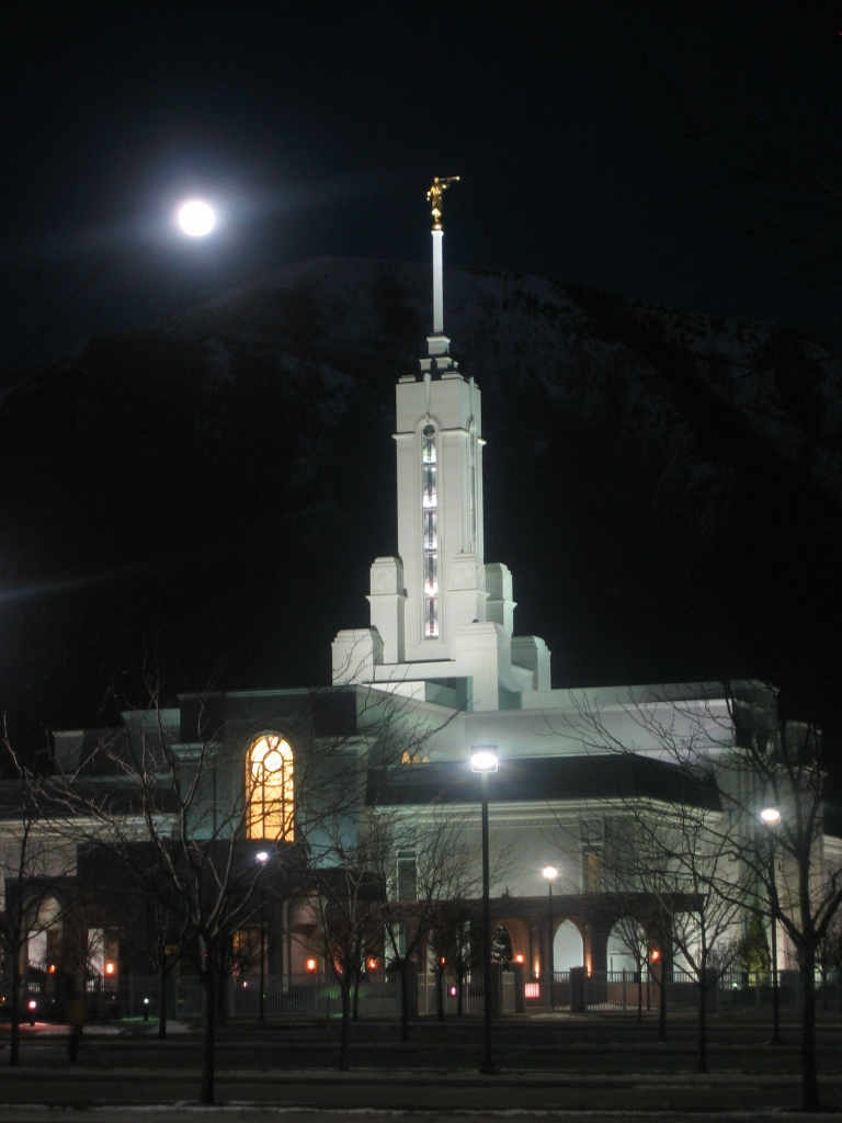 Mount Timpanogos Utah Temple at night, moon shining in the background.